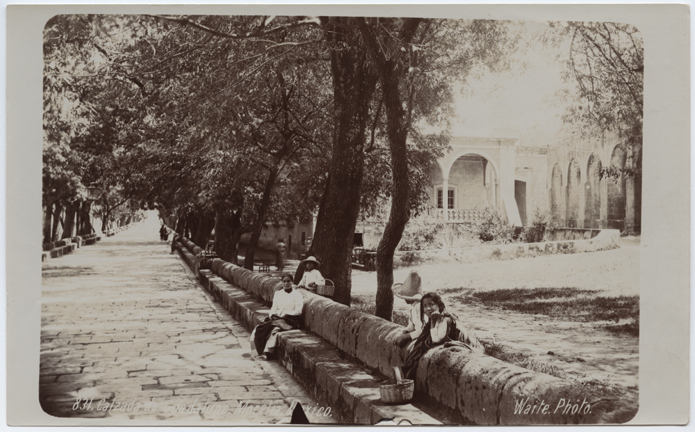 Title: Calzada de Guadalupe, Morelia, Mexico Creator: Waite, C. B. (Charles Betts), 1861-1927 Date: 1904 Part Of: Mexico Place: Morelia, Michoacan, Mexico Physical Description: 1 photographic print: gelatin silver; 20.2 x 12.6 cm File: ag1983_0281_0831_calzado_opt.jpg Rights: Please cite DeGolyer Library, Southern Methodist University when using this file. A high-resolution version of this file may be obtained for a fee. For details see the web page. For other information, . For more information and to view the image in high resolution, see: View the Mexico: Photographs, Manuscripts, and Imprints Collection